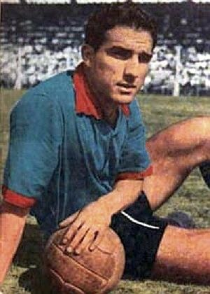 Hector De Bourgoing during his time as a Tigre player in Argentina (1954-1956)